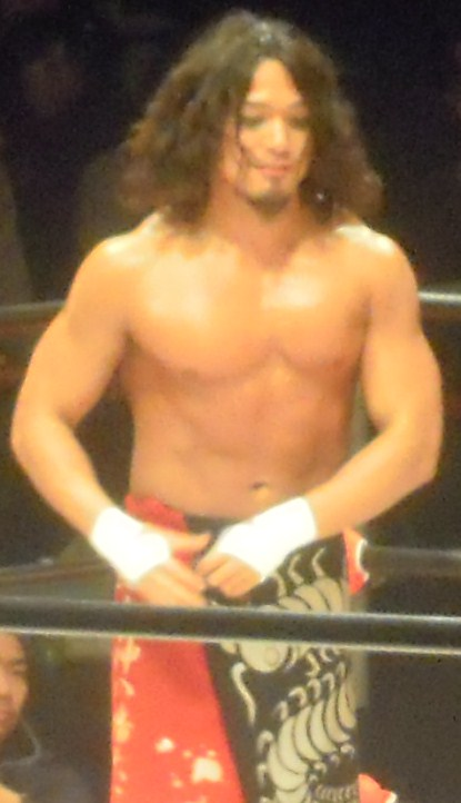 Japanese professional wrestler,YAMATO GAORA Janualy 24 201 JCB Hall.